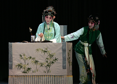 Kunju actress Fengying SHEN (L) performs in Kunju Peony Pavilion on the stage of Peking University Hall in Beijing, China, April 18, 2006.